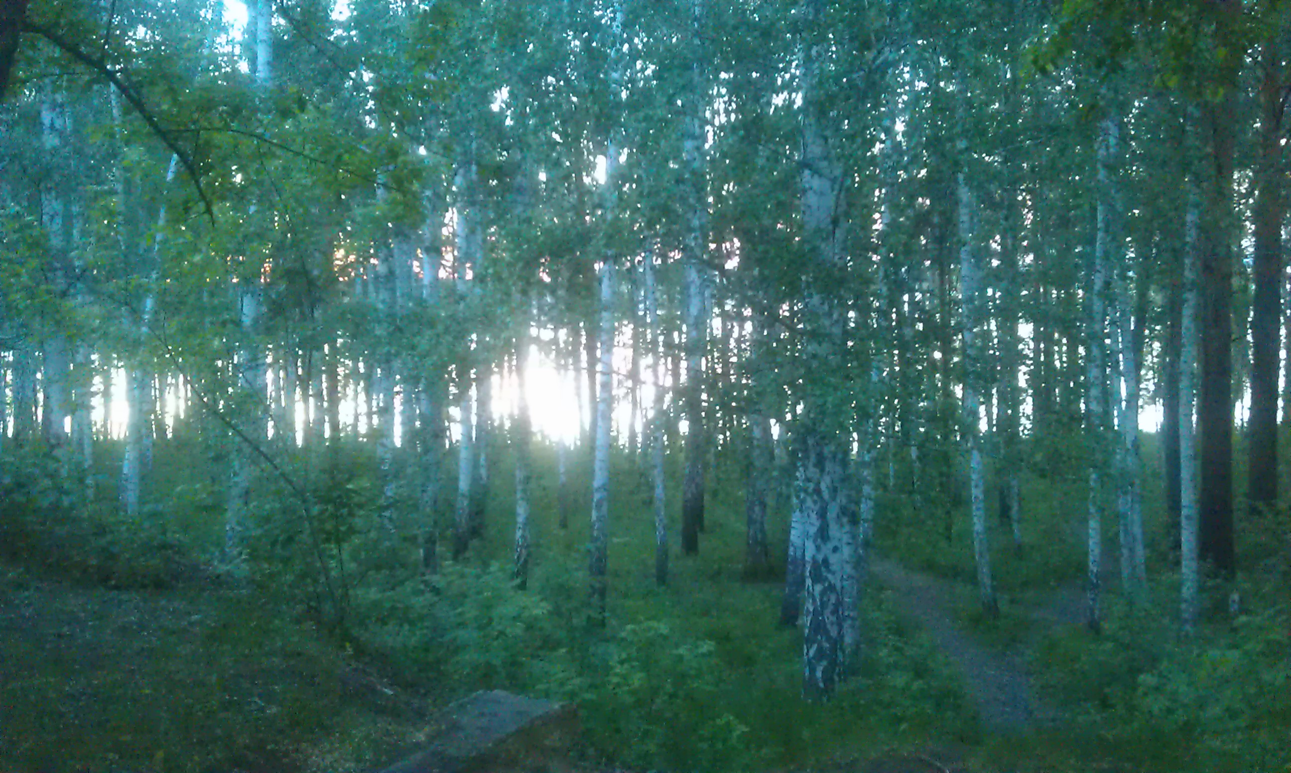 березовая роща на берегу озера Синара